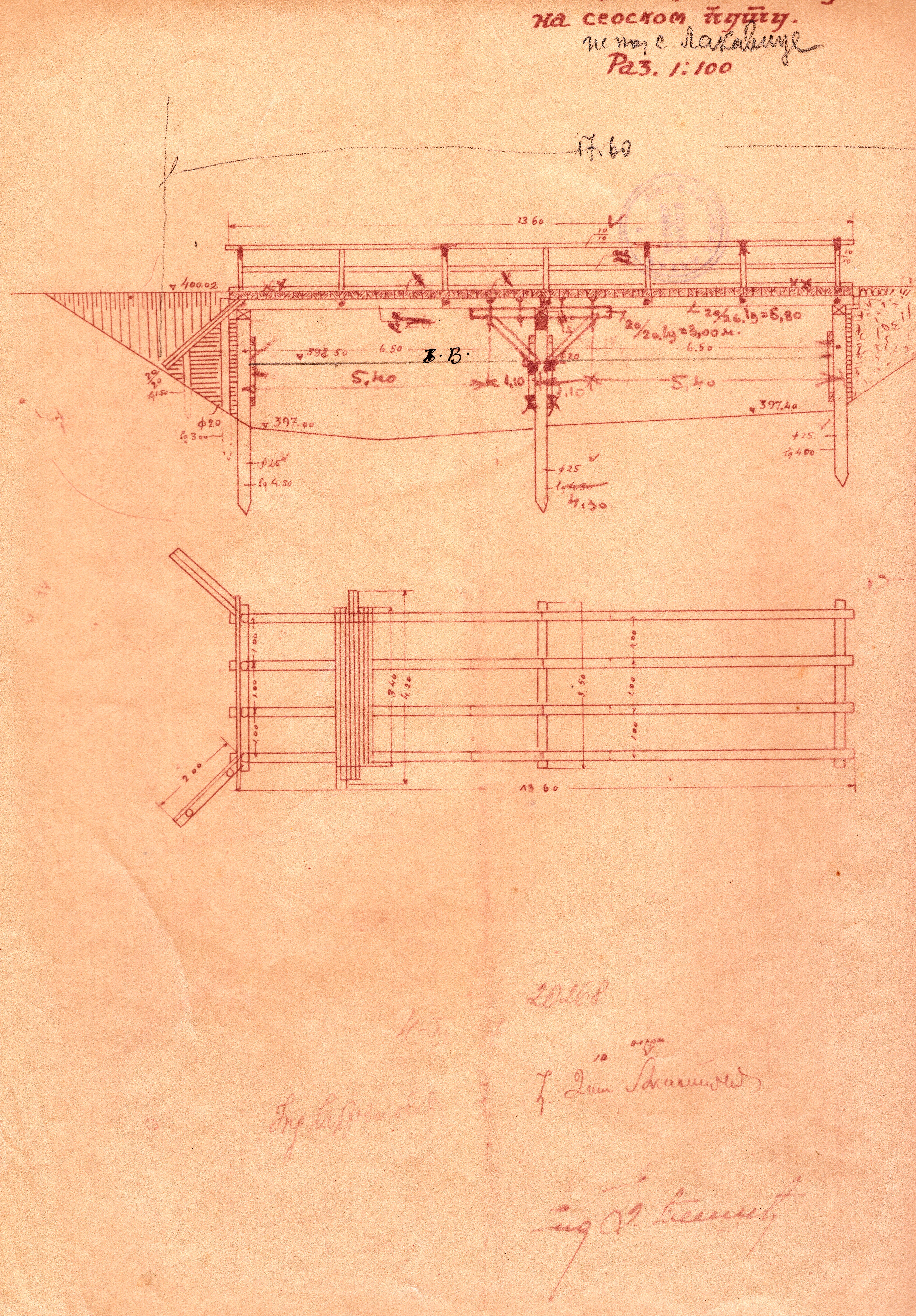 Blueprint of the bridge on the river Lakavica, village road to the village Lakavica, Gostivar (24 July 1938). This media file is produced by Wikipedian in Residence in Category:Wikipedian in Residence at DARM in 2017.